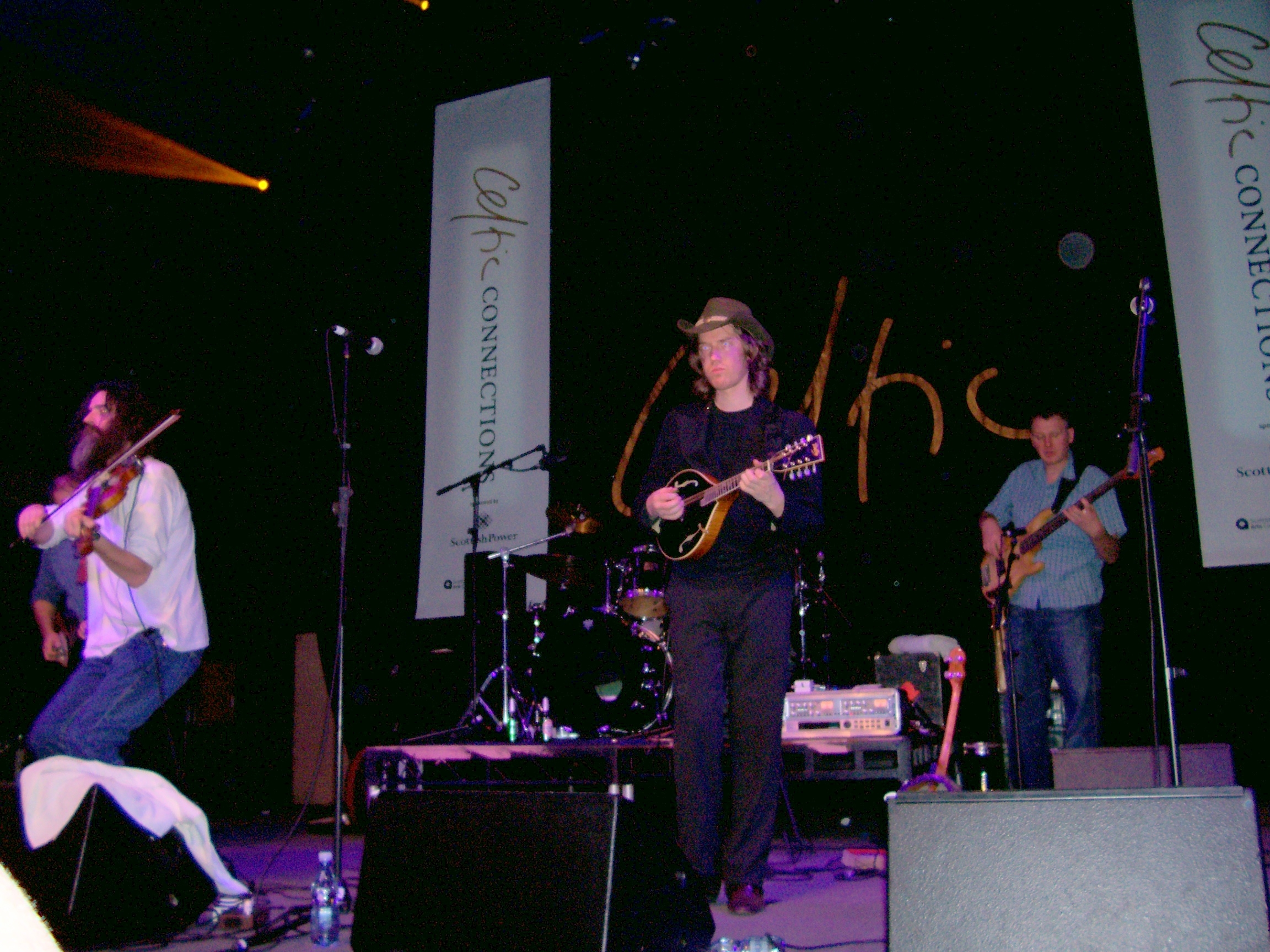 Angus R. Grant, Luke Plumb, and Quee Macarthur of Shooglenifty play at Old Fruitmarket in Glasgow during the Celtic Connections Festival in 2007